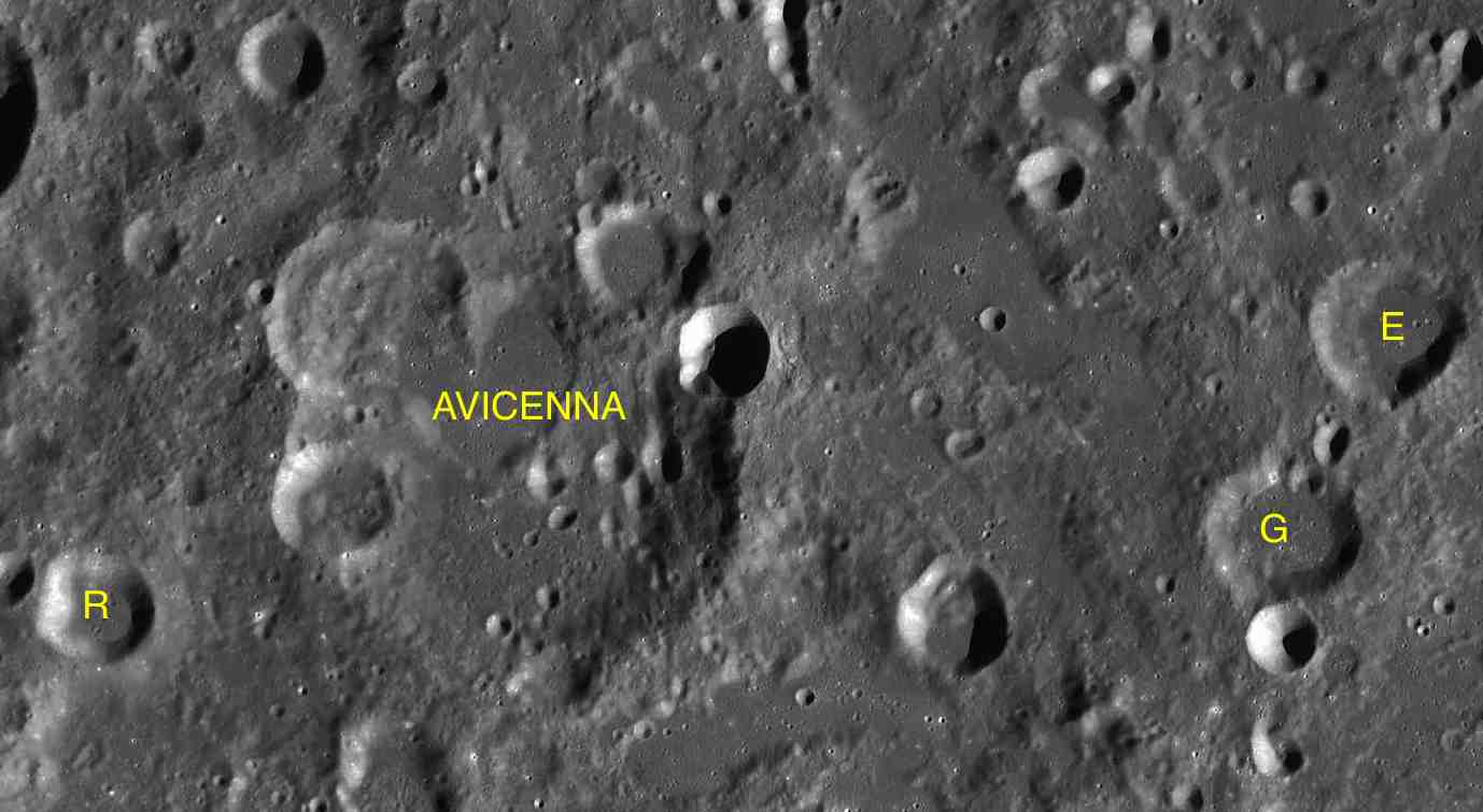 Part of the chart LAC-36 used for the presentation